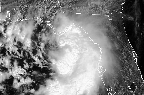 Tropical Storm Claudette (2009) off the coast of Florida. Photographed in visible light by GOES Atlantic Floater 3 at 1715Z